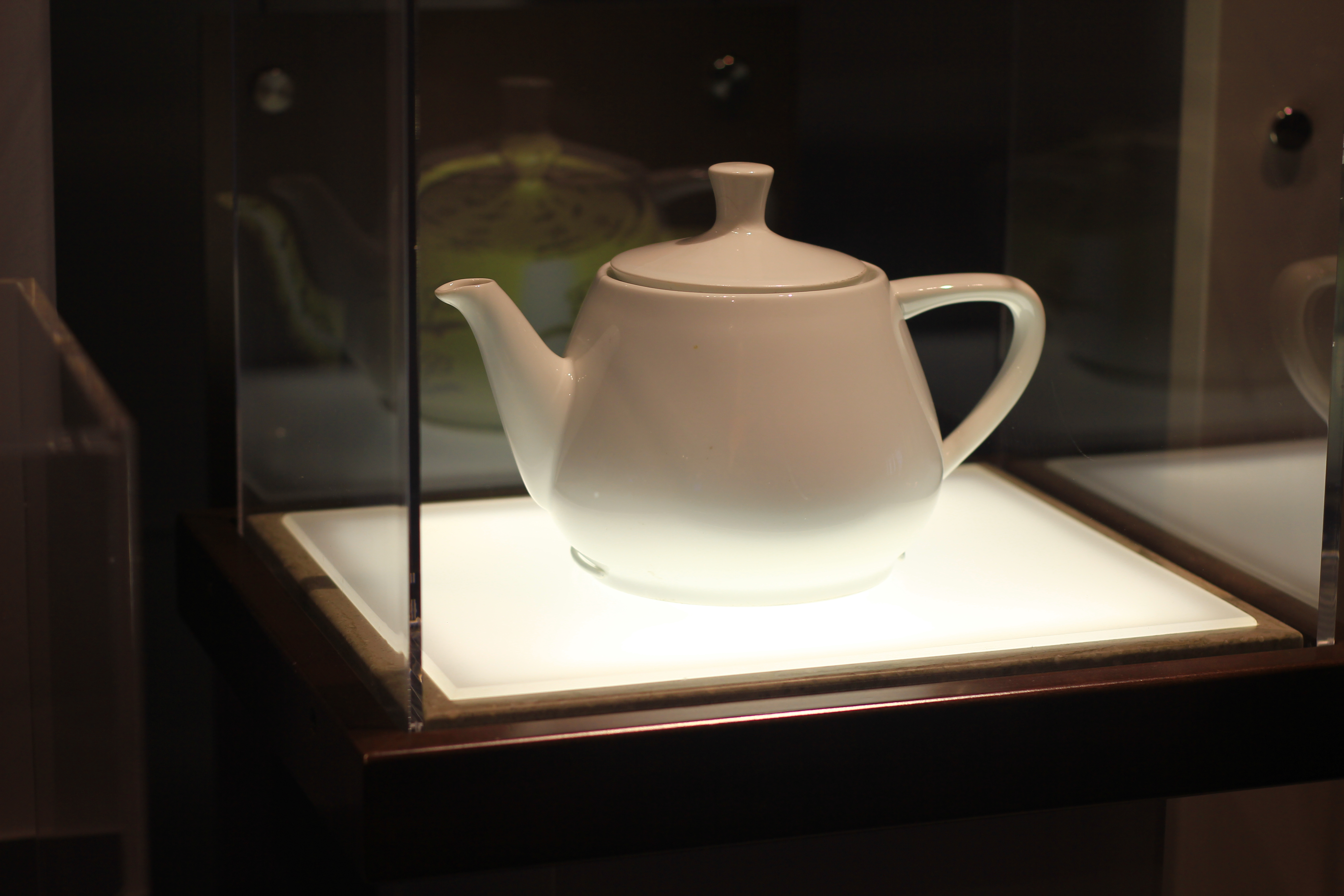 The Utah Teapot. Scanned versions usually appear vertically squished.